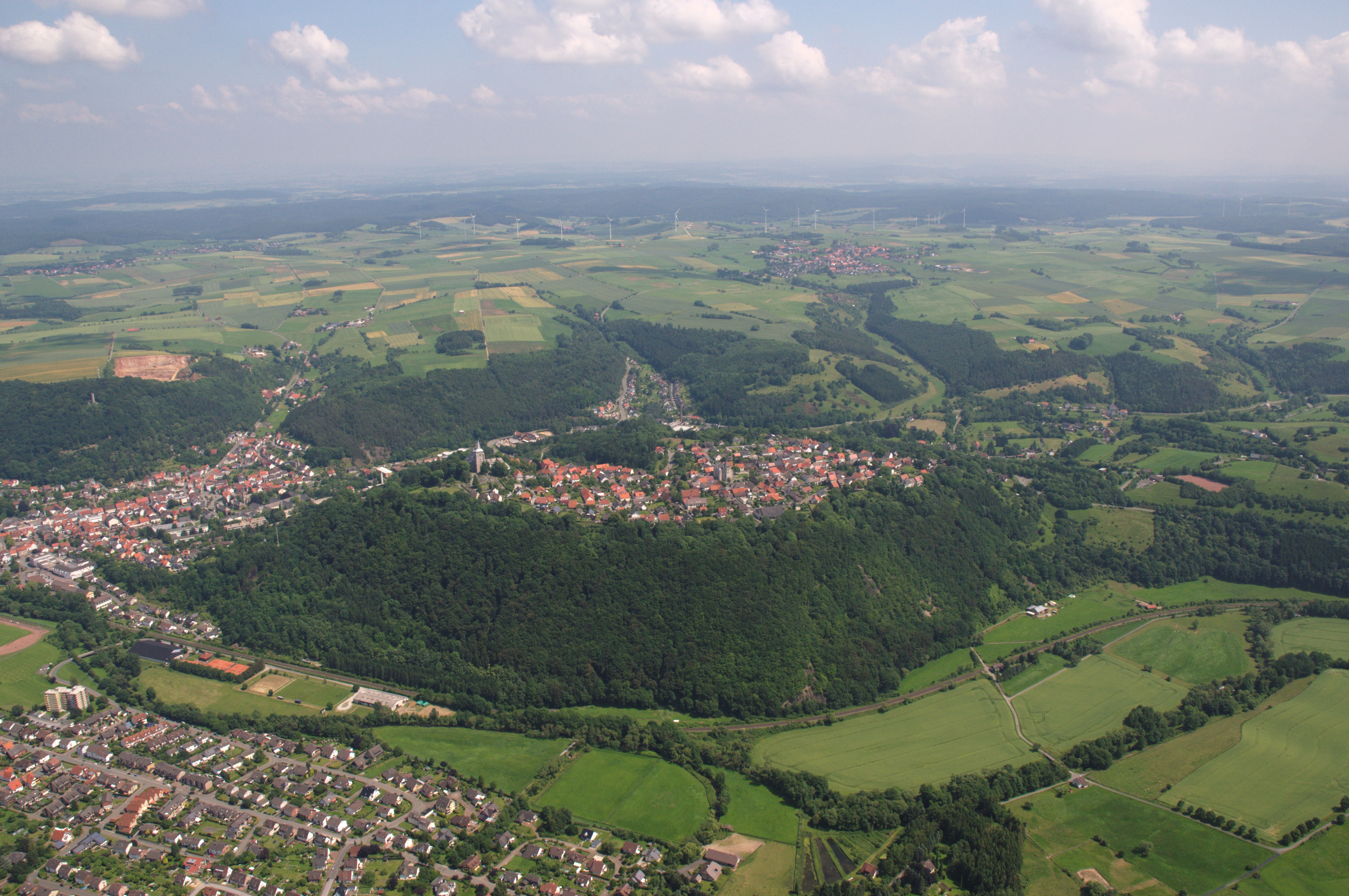 Fotofug Sauerland-Ost - Marsberg, Blick auf Obermarsberg und das Naturschutzgebiet Hagen / Königsseite The making of this document was supported by the Community-Budget of Wikimedia Germany.